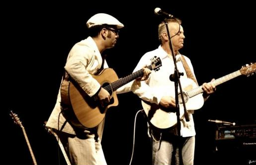 Francesco Piu with Tommy Emmanuel, Teatro Lirico di Cagliari Ph: Peppuccio Trudu